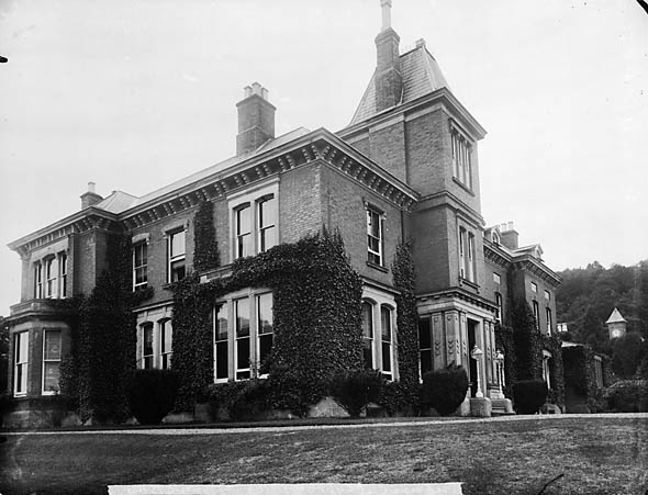 1 negative : glass, dry plate, b&w ; 16.5 x 21.5 cm.